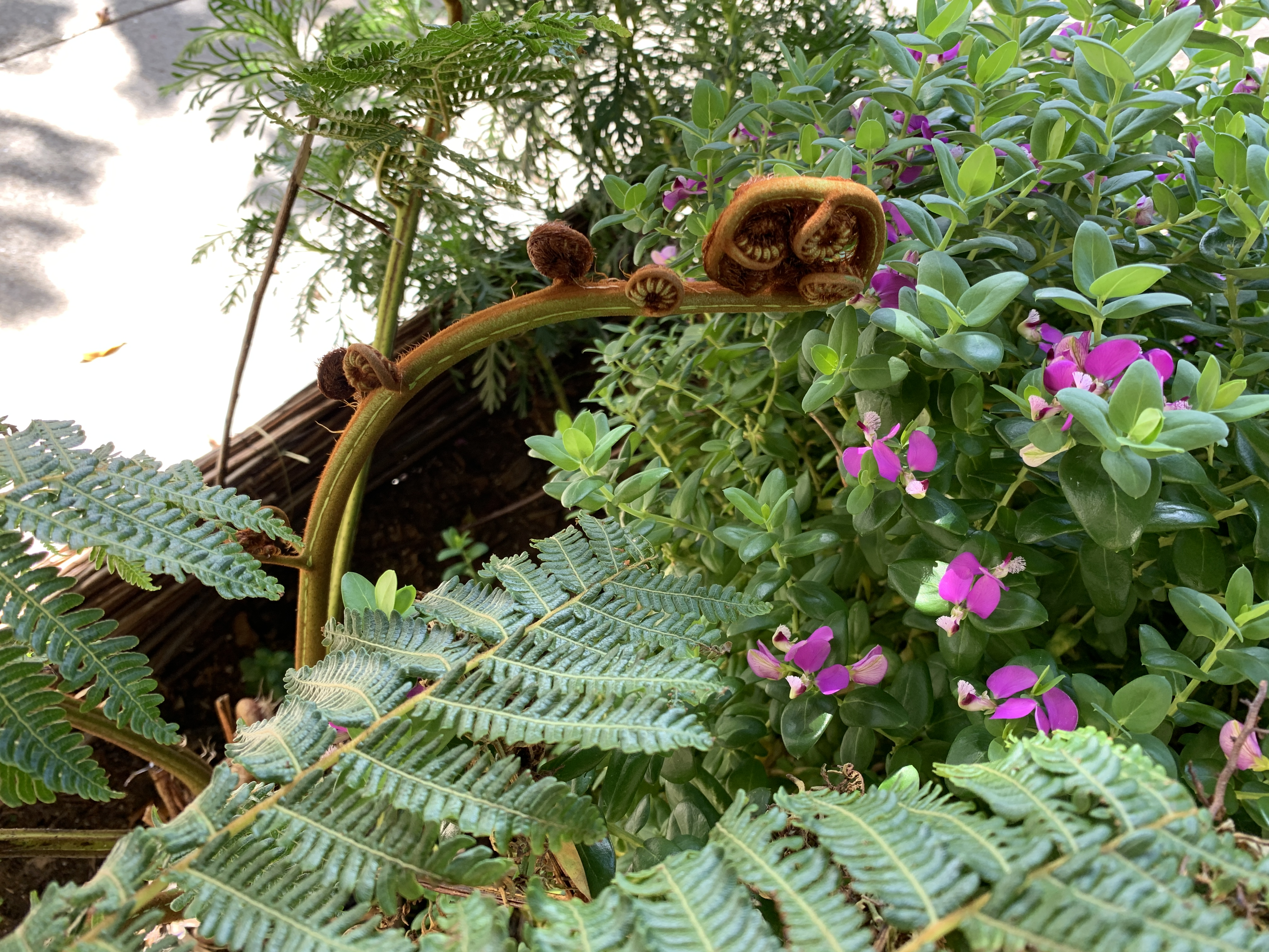 Fiddleheads of Fern plant in San Francisco, California, USA